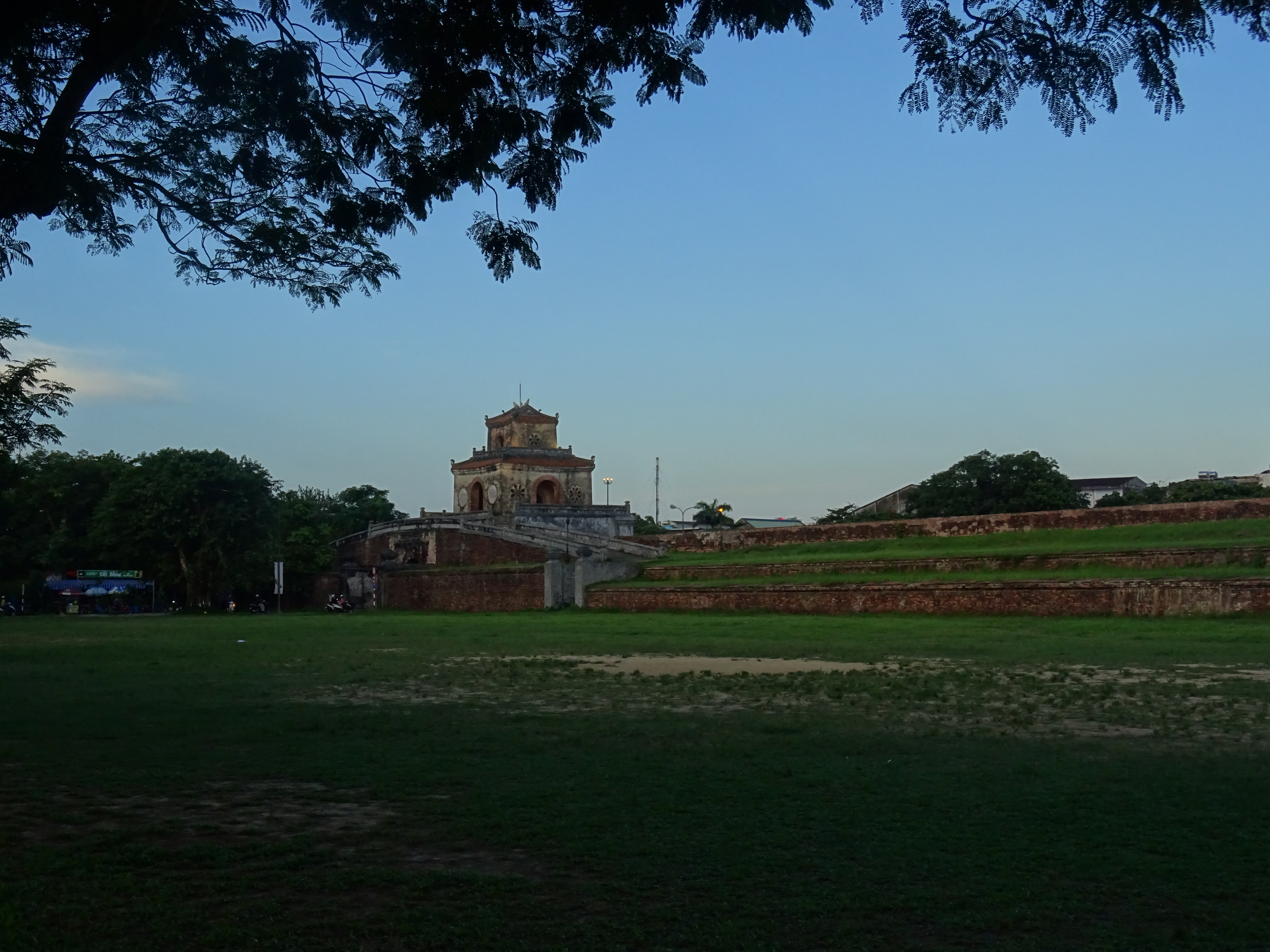 Cửa Thượng Tứ, one of the gates of the Citadel of Huế.